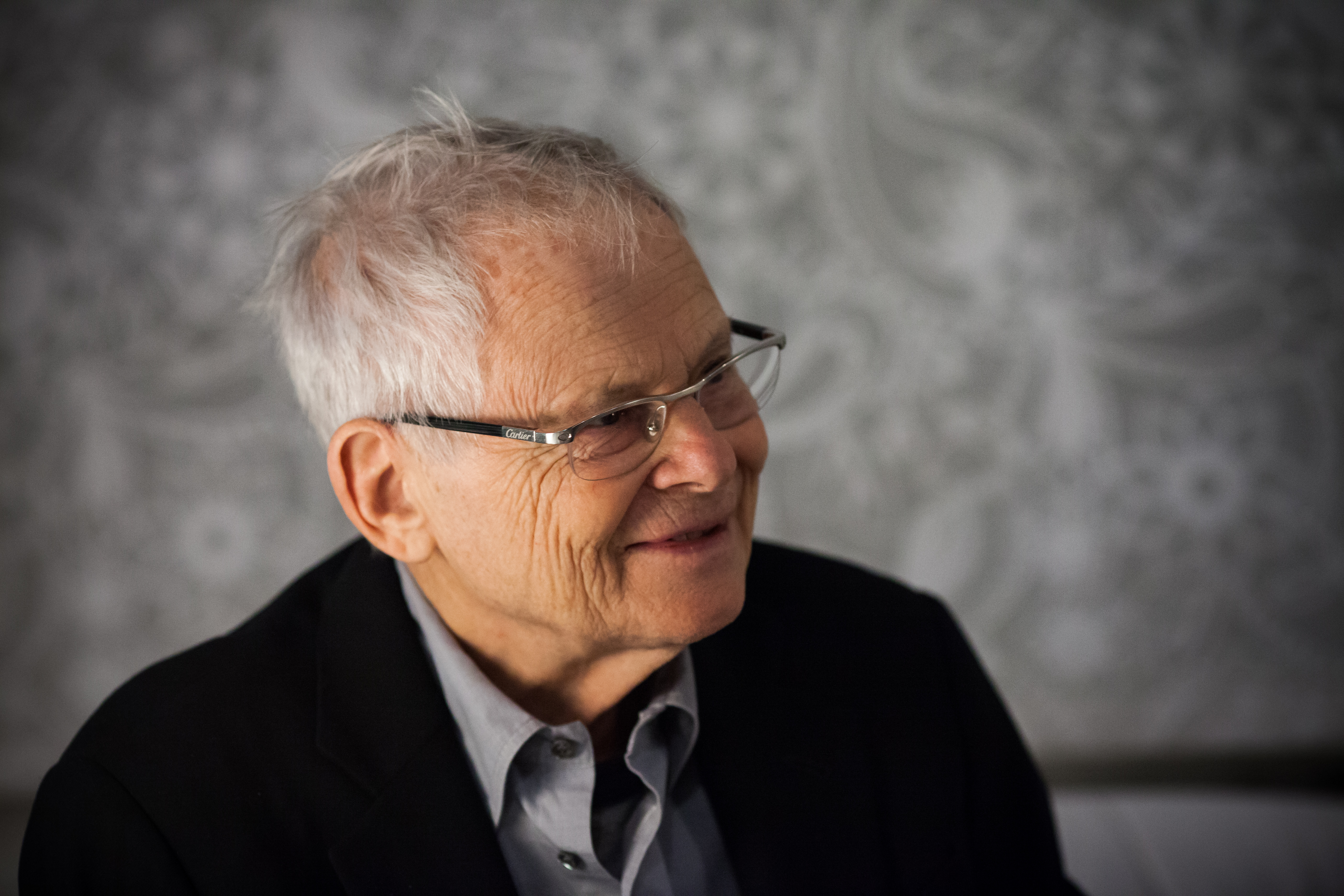 Steve Schapiro. The Lumiere Brothers Center for Photography, Moscow, Russia